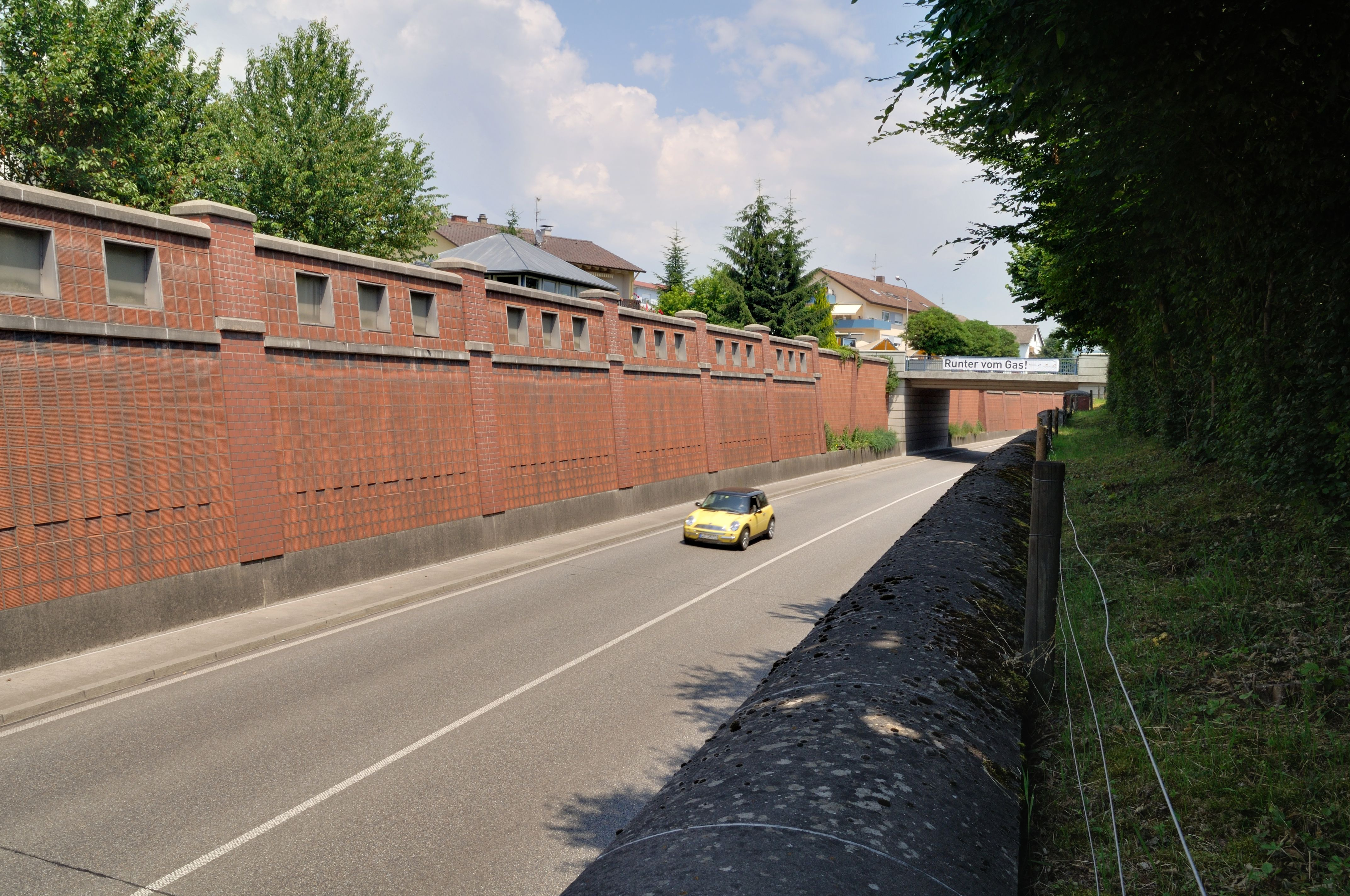 Aqueduct of Hauingen